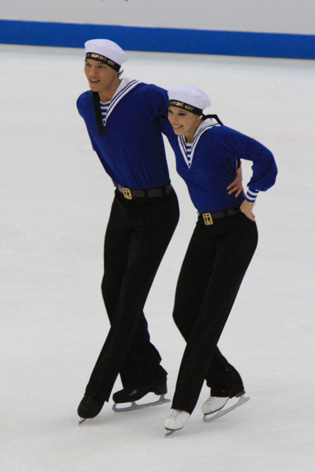 Ekaterina BOBROVA and Dmitri SOLOVIEV at the 2009 NHK Trophy. OD.